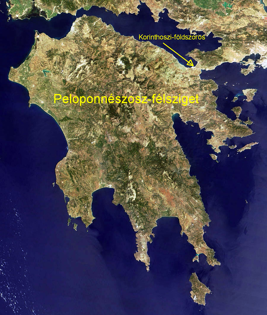 Hungarian version of Peloponnesos from the Greek version, itself copied from the English Wikipedia